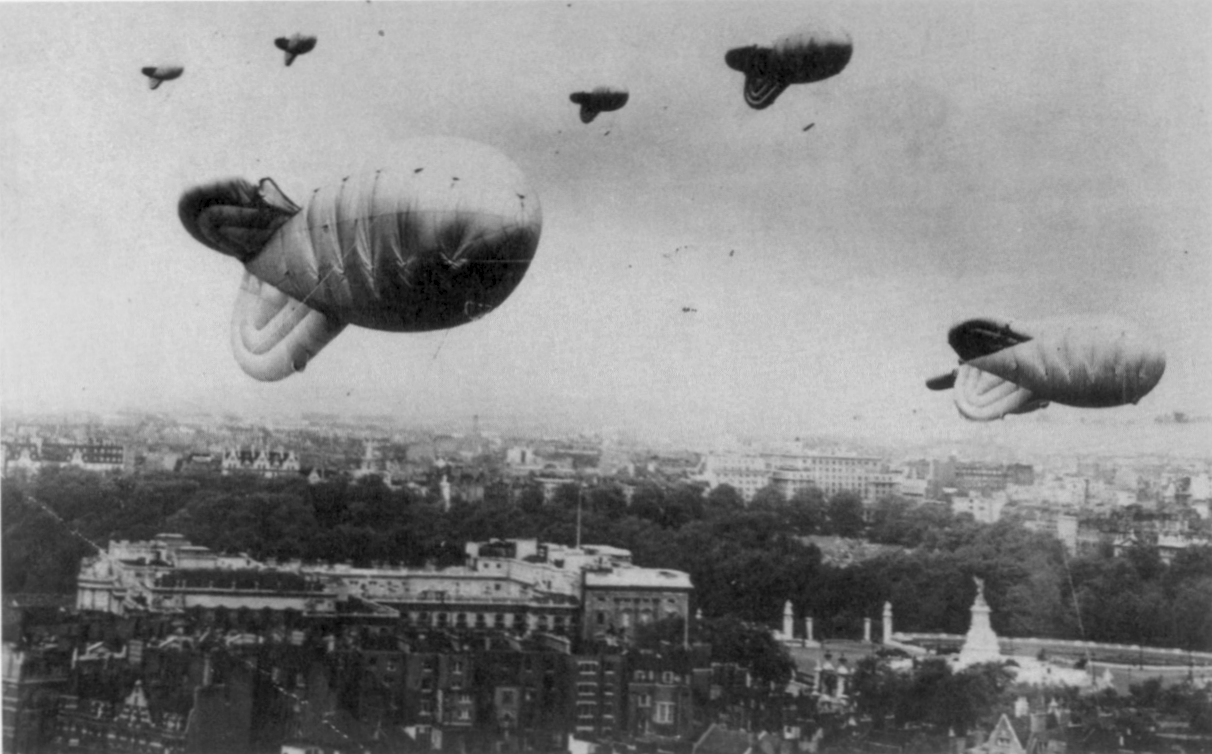 Photograph of Barrage balloons over London during World War II. Buckingham Palace and the Victoria Memorial can be seen in the middle ground.